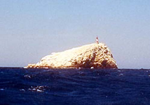 Photo of guano-coated Farallón Centinela island off the coast of Venezuela.